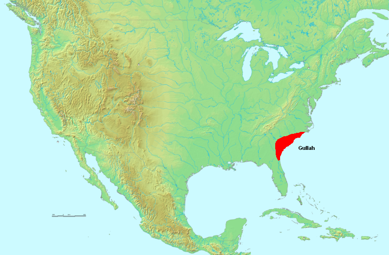 created by User:Flash Gordon1